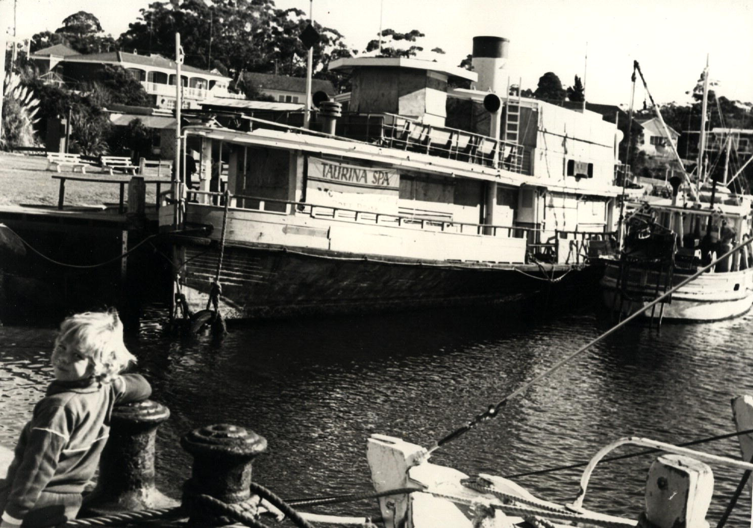 Sydney ferry LADY DENMAN arrives at Huskisson 1981. Graeme Andrews, Retired ferry LADY DENMAN arrives at Huskisson. (01/01/1979 - 31/12/1979), [A-00076029]. City of Sydney Archives, accessed 07 Jun 2020